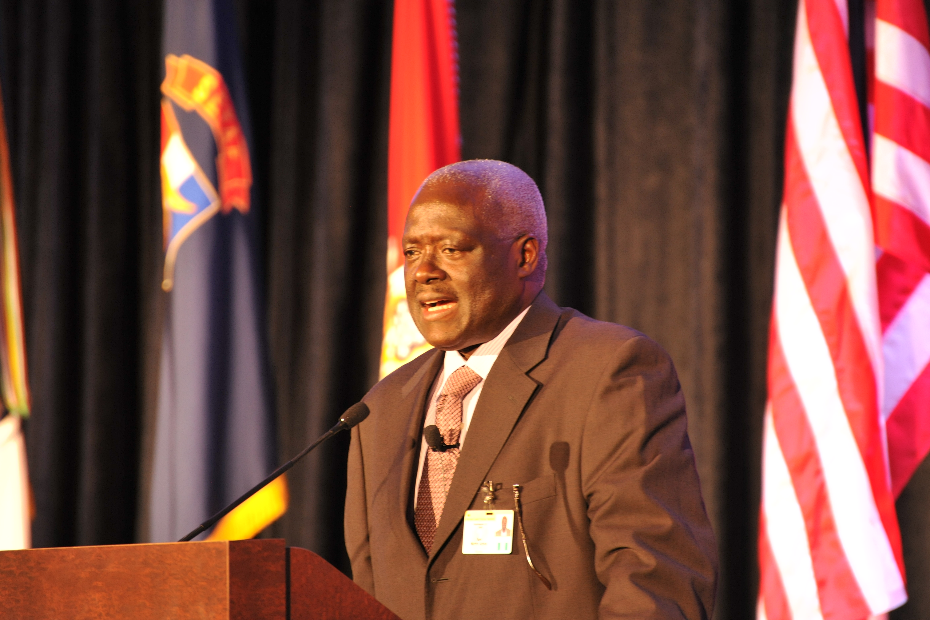 Panel discussion topic: Institutional Adaptation: Challenges of the 21st Century General (R) Martin L. Agwai, former commander, UNAMID speaks to delegates during panel discussion at African Land Forces Summit 2010. U.S. Army photo by Barbara Romano. Cleared for public release.